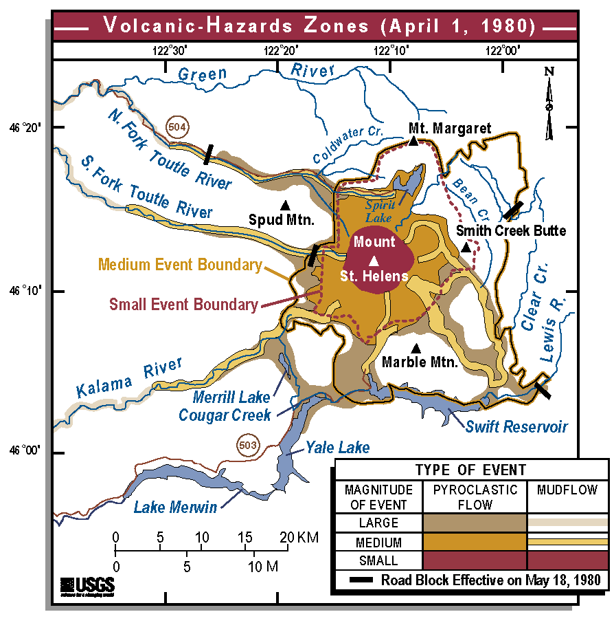 Map showing distribution of hazards from a possible eruption of Mount St. Helens for April 1, 1980.